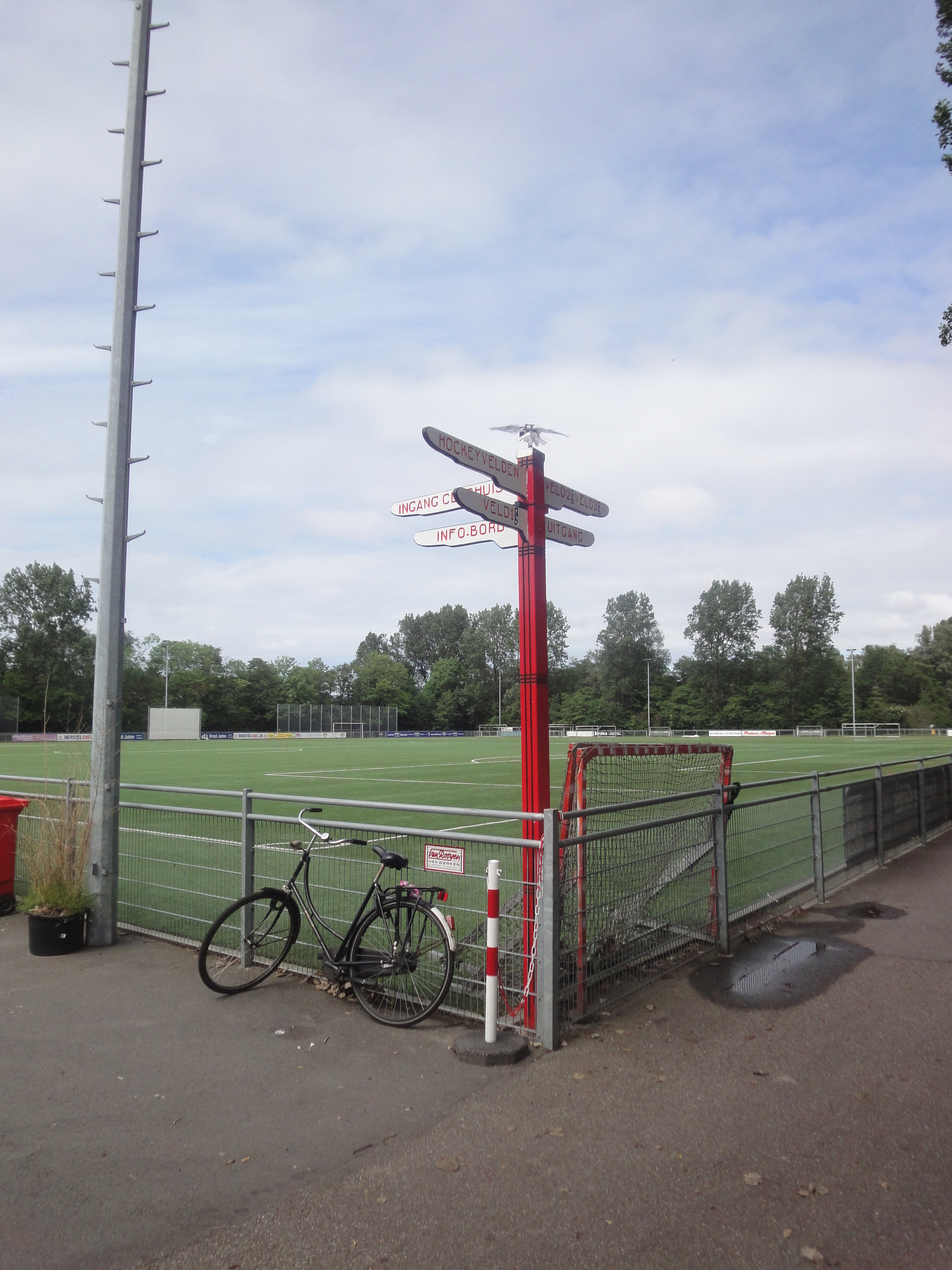 terain of soccer, hockey and cricket club HBS-Craeyenhout